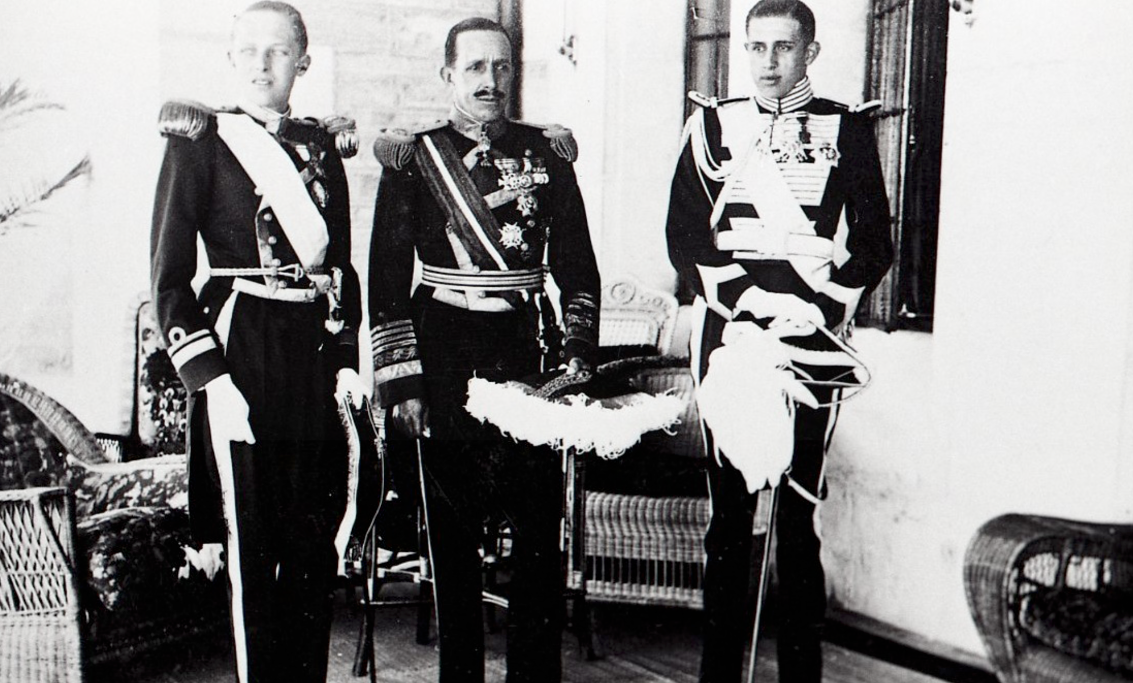 King Alfonso XIII of Spain with two of his sons, Alfonso (left) and Jaime (right). Alfonso is wearing a uniform of the Spanish Navy, whereas Jaime is wearing the uniform of the Real Maestranza de Caballería de Sevilla.